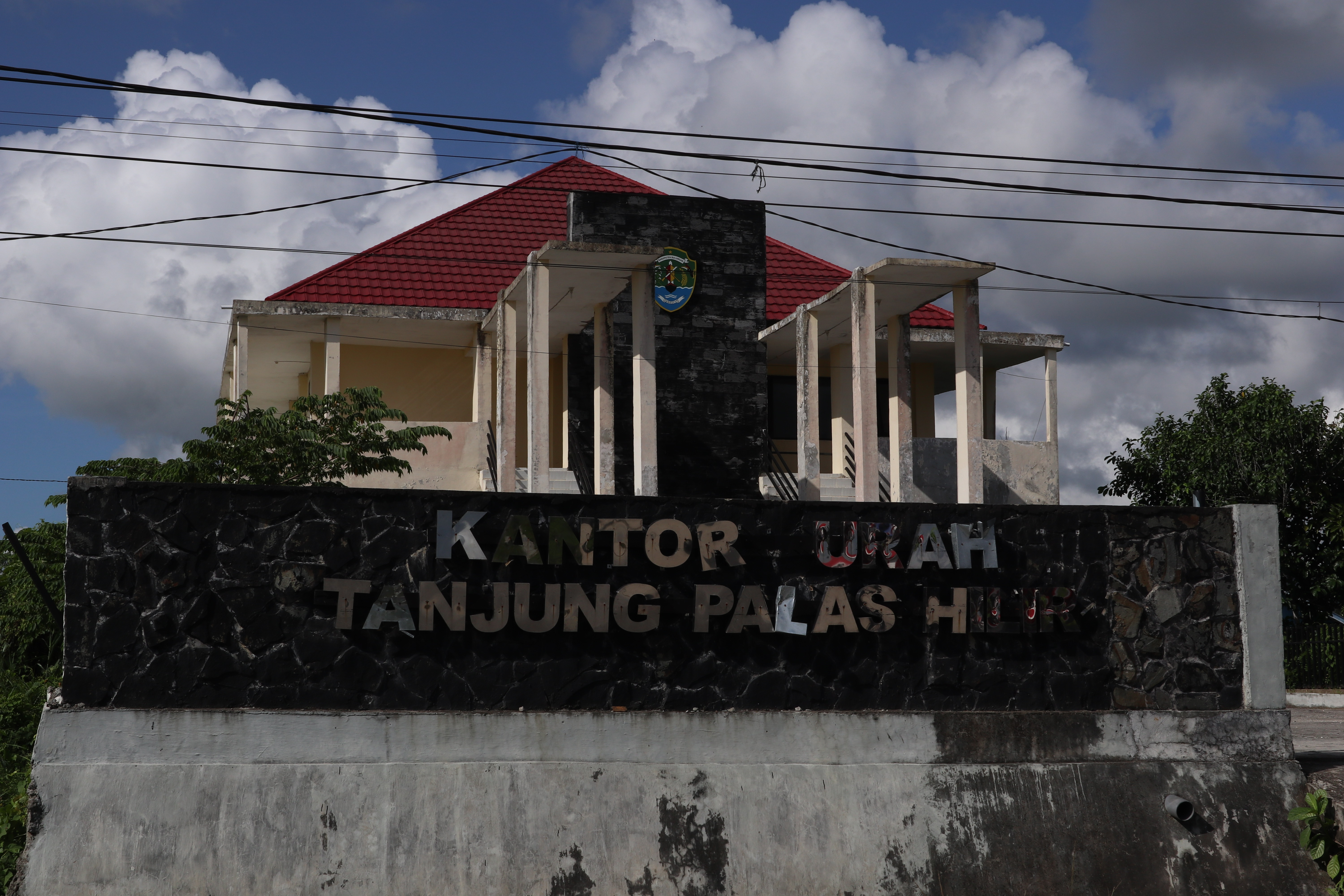 Tanjung Palas Hilir (Downstream of Tanjung Palas) urban village office in Tanjung Palas subdistrict, Bulungan Regency, North Kalimantan, Indonesia.